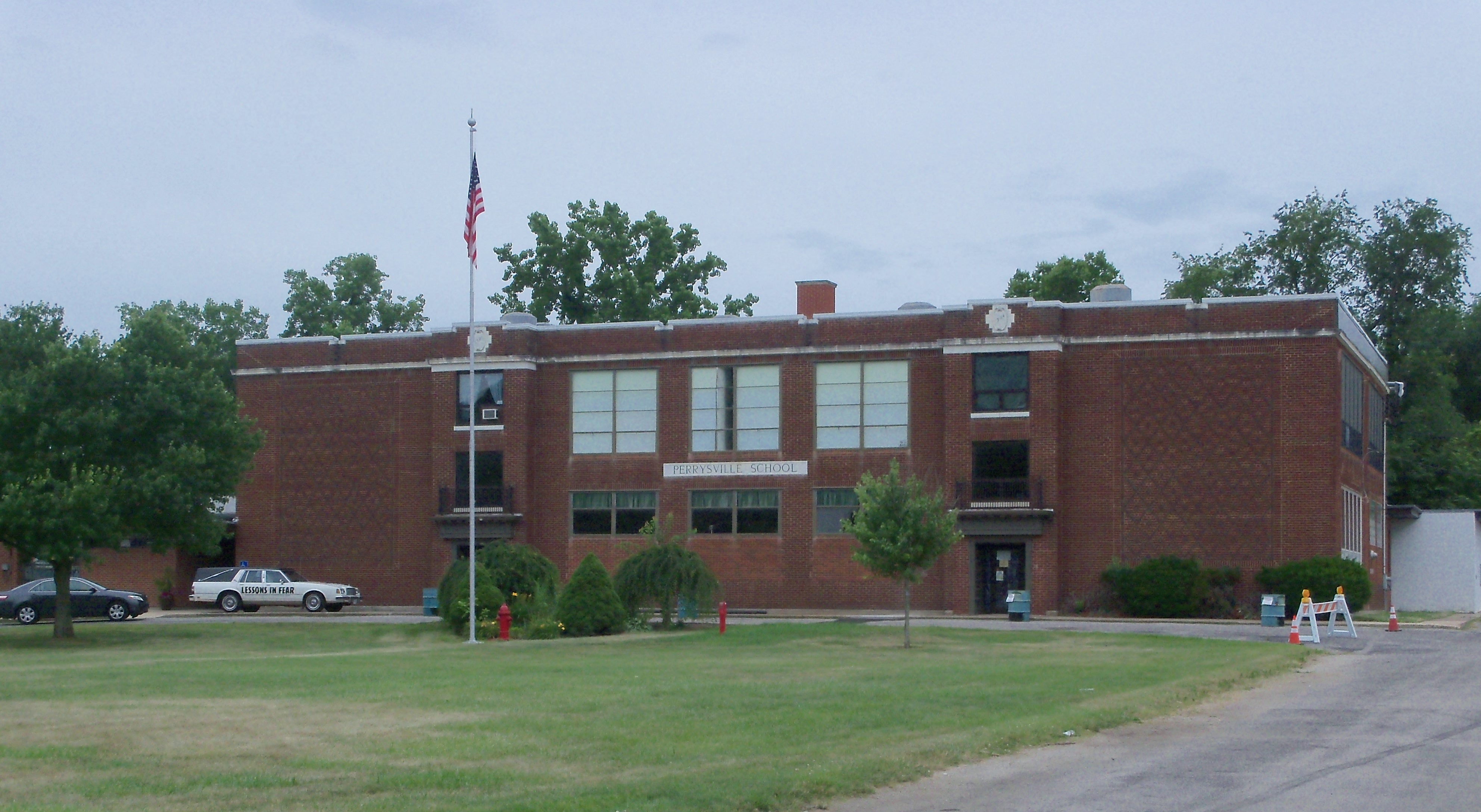 Perrysville, Ohio School on Route 39 near Route 95